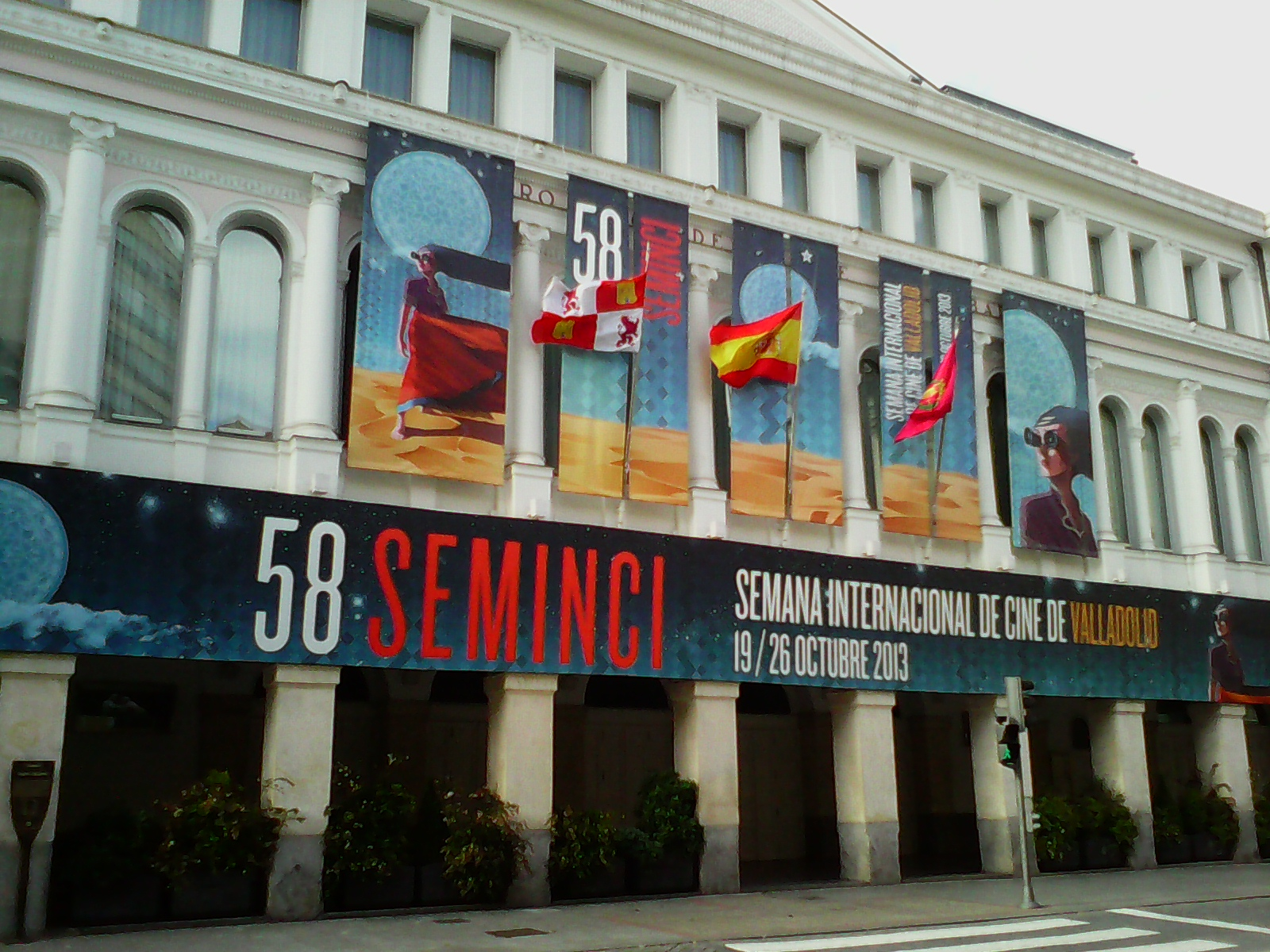 Outside of the Teatro Calderón in Valladolid (Spain) during the 58th Seminci (2013)